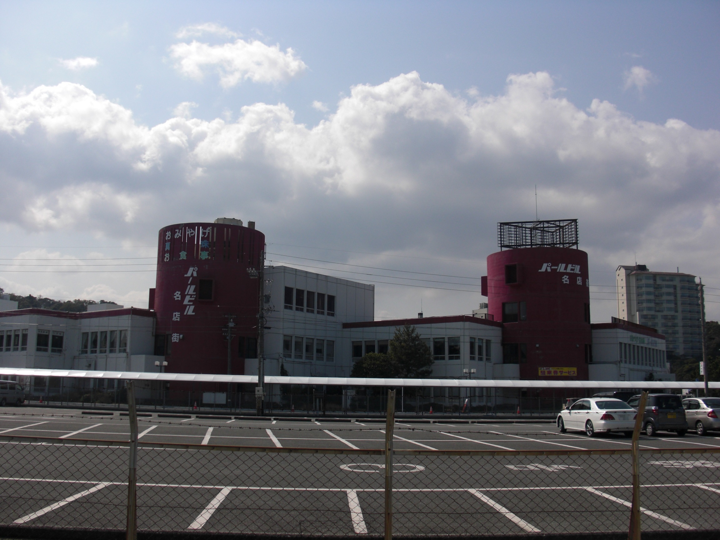 This is Toba Pearl Building (already closed) in Toba, Mie, Japan.